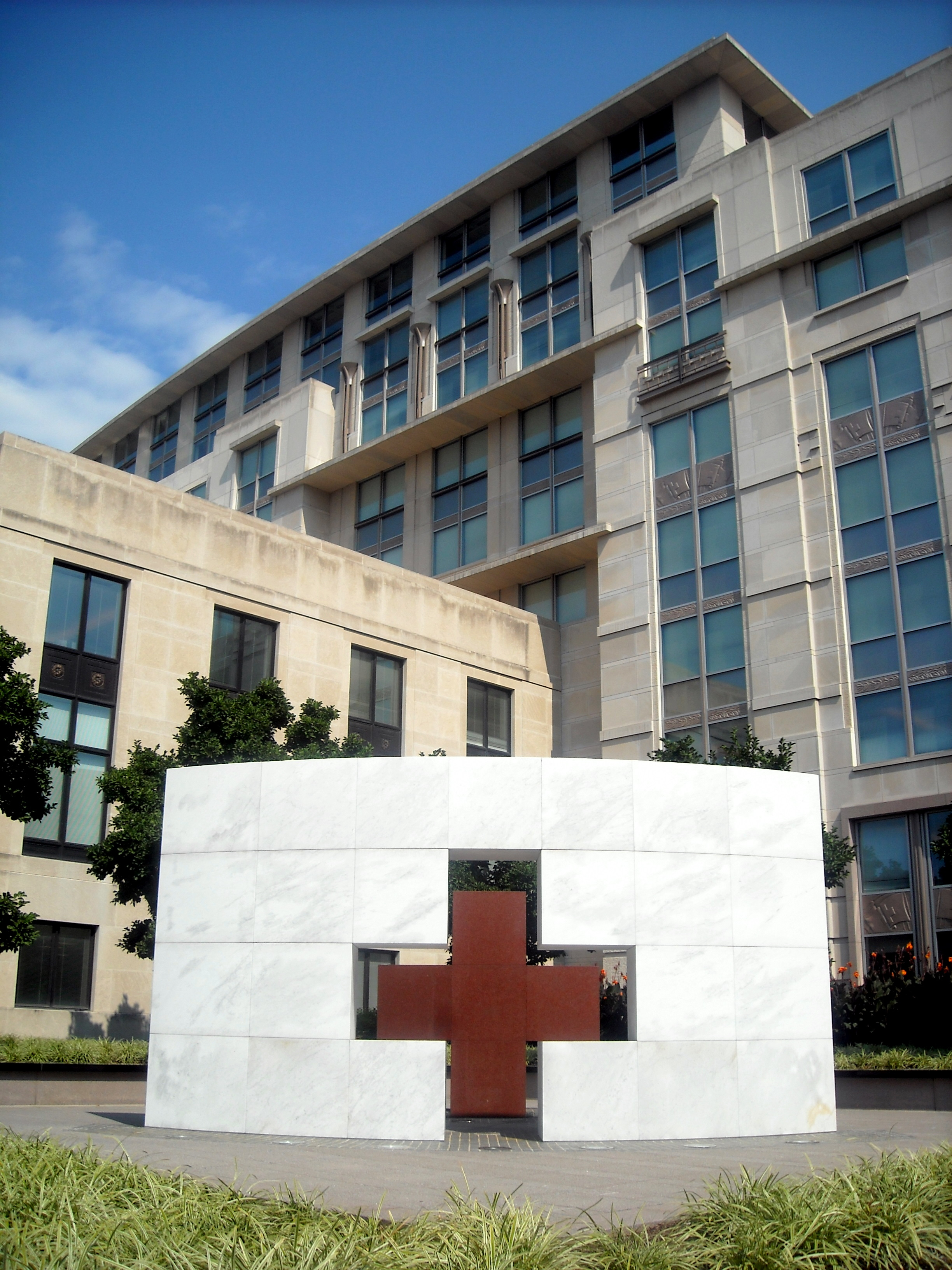 The American Red Cross Administrative Headquarters is located at 2025 E Street, NW in the Foggy Bottom neighborhood of Washington, D.C. The ten-story office building was constructed in 2003, and incorporates an existing structure, the 1952 National Capital Chapter building. The 2009 property value of the American Red Cross Administrative Headquarters is $180,180,000.